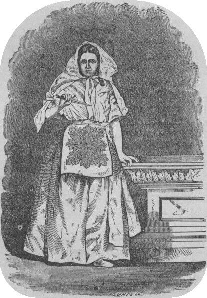 "62. The Endowment, tail-piece", by "Fay & Cox, 15 Nassau St., N.Y." An illustration of clothing reported to have been worn by female members of The Church of Jesus Christ of Latter-day Saints as part of an Endowment ceremony, circa 1870s. The dagger in her hand is NOT a part of her clothing.